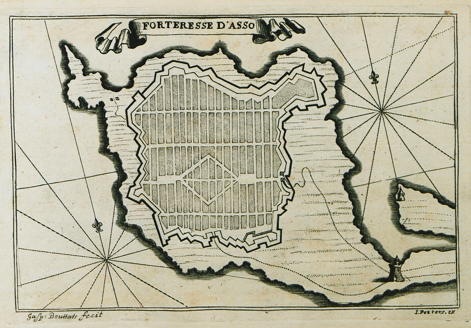 Jacob Peeters. Description des principales villes, havres et isles du golfe de Venise du coté oriental. Comme aussi des villes et forteresses de la Moree, et quelques places de la Grèce, Antwerp, Sur le marché des vieux Souliers, 1690.